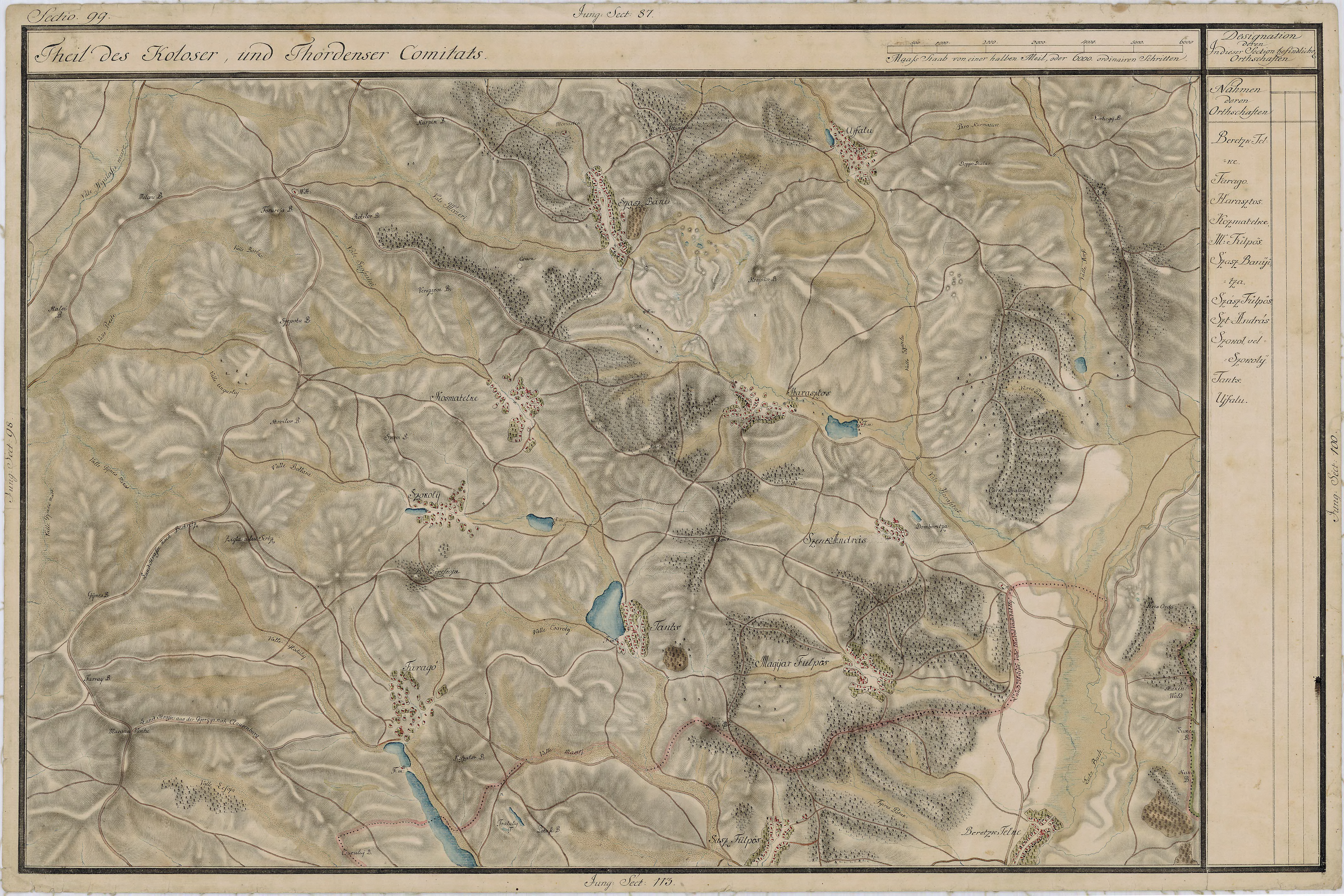 Grand Duchy of Transylvania, 1769-1773. Josephinische Landaufnahme pg.099